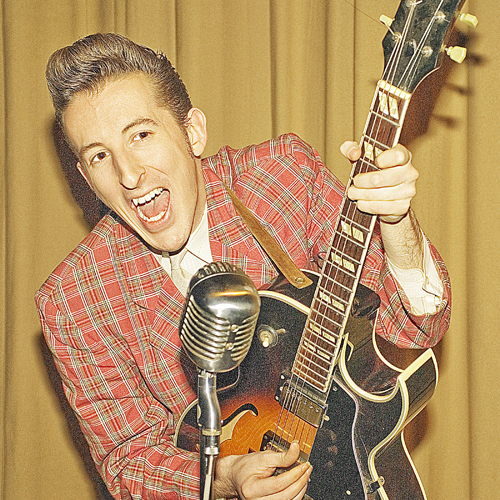 Sonny - singer-guitarist of Sonny and his Wild Cows